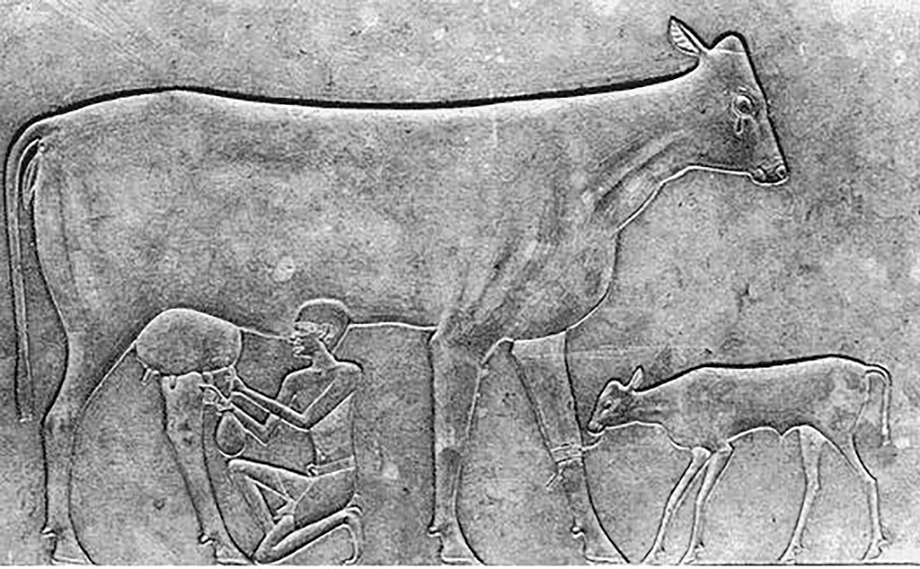 Sarcophagus of Kauit from the Mortuary Temple of Mentuhotep II. at Deir el-Bahari. Detail: Cow shedding a tear at the removal of the milk